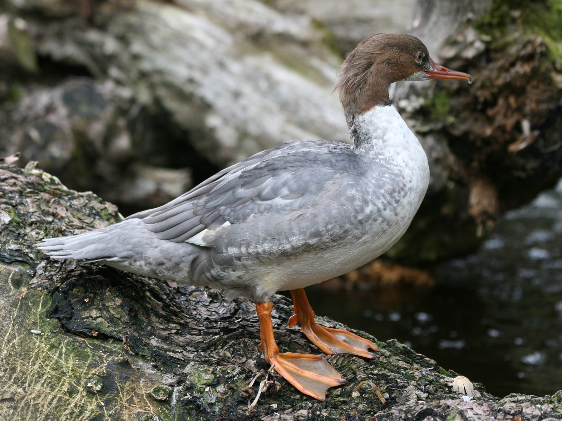 Description: The Common Merganser, (Goosander in Europe), Mergus merganser, is a large sized duck, which is distributed over Europe, North Asia and North America. It is most common on lakes and rivers. Its nests can be found in treeholes.